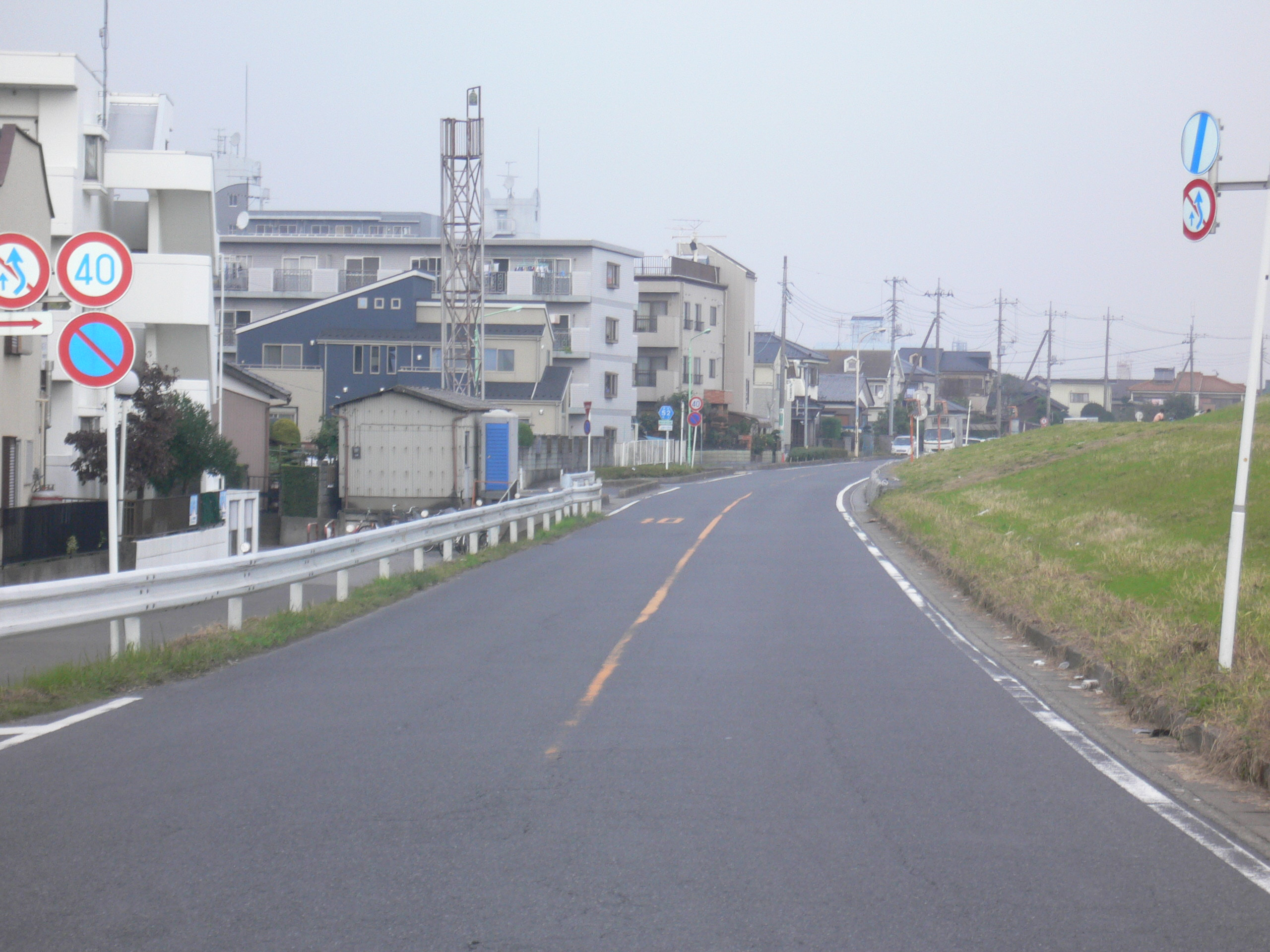 Saitama prefectural road 52 (埼玉県道52号越谷流山線), Misato C, Saitama P.